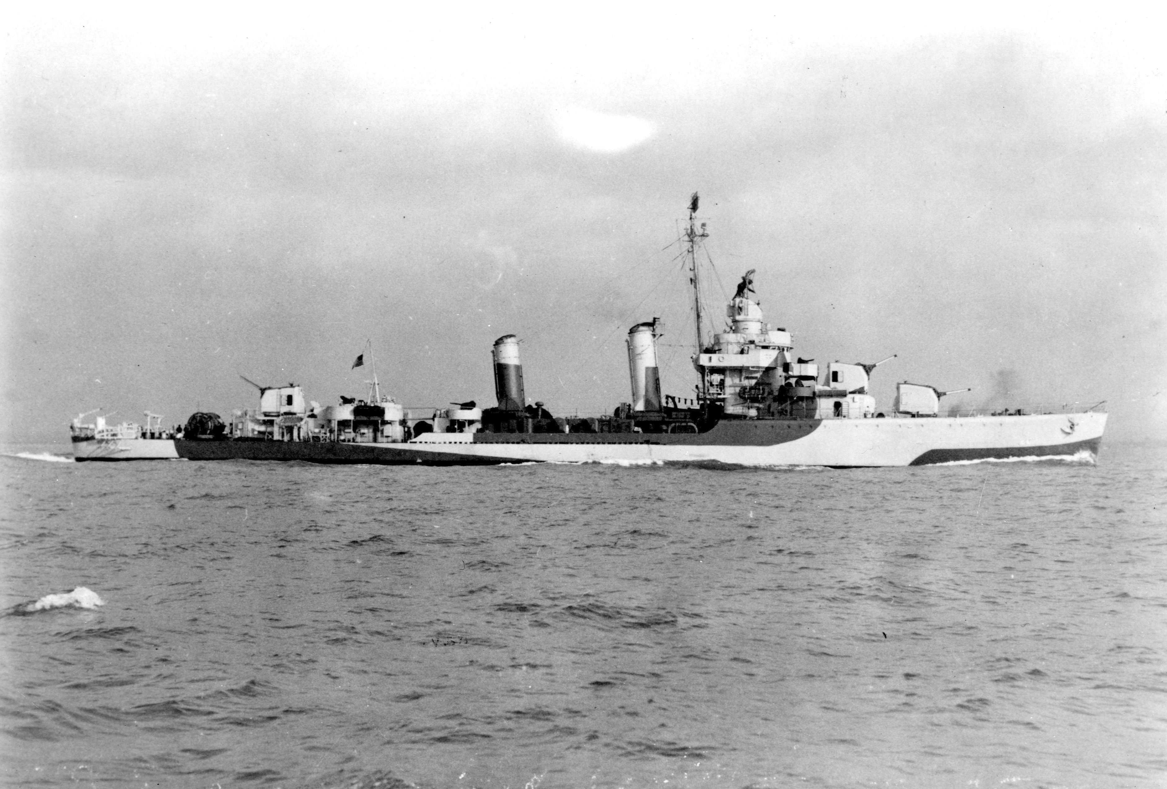 The U.S. Navy high-speed minesweeper USS Hambleton (DMS-20) at sea. Hambleton arrived at the Boston Navy Yard, Massachusetts (USA), on 8 November 1944, where the destroyer was converted into a high-speed minesweeper and redesignated DMS-20 (from DD-455) on 15 November.